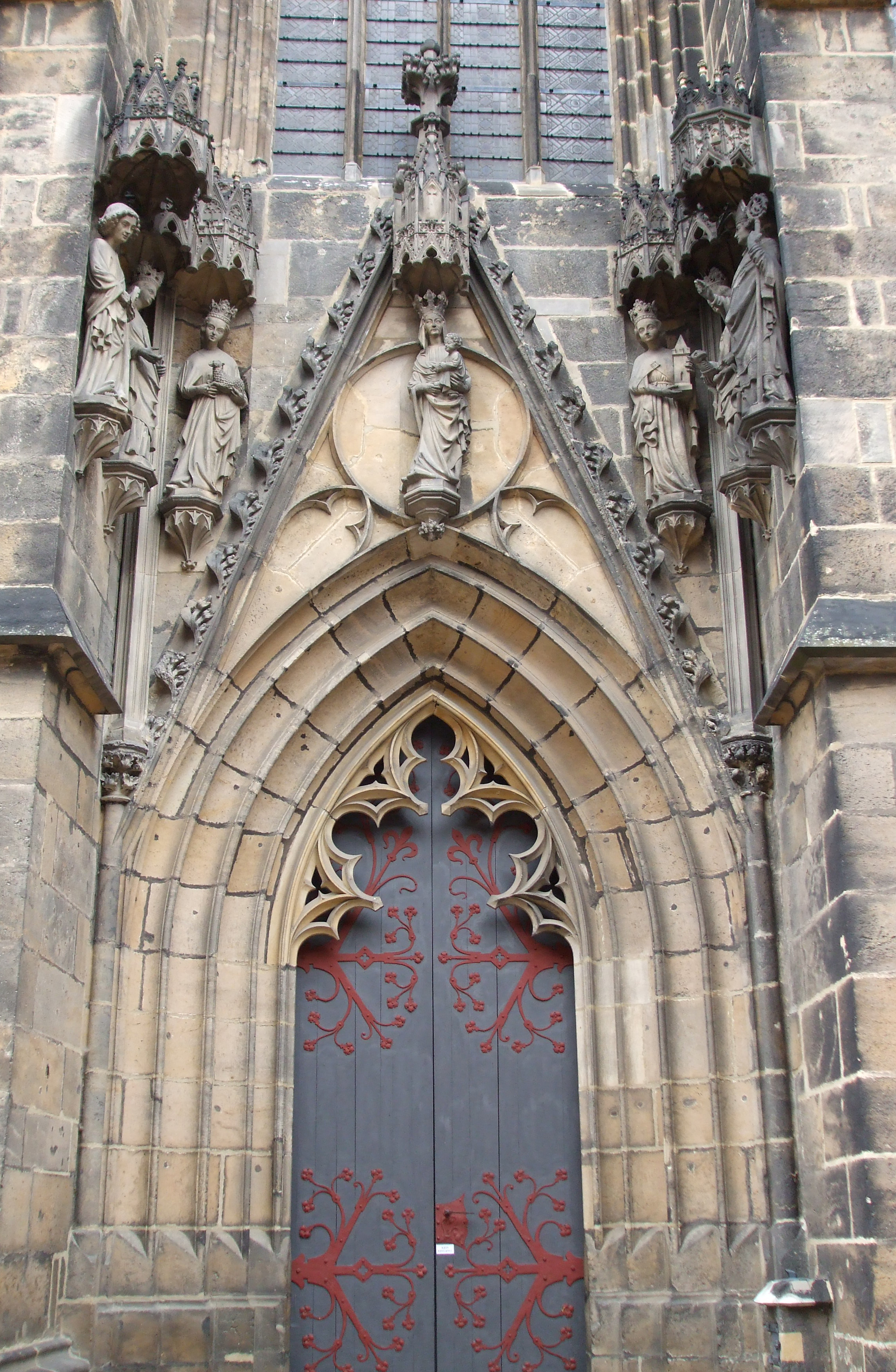 portal in the Meissen Cathedral